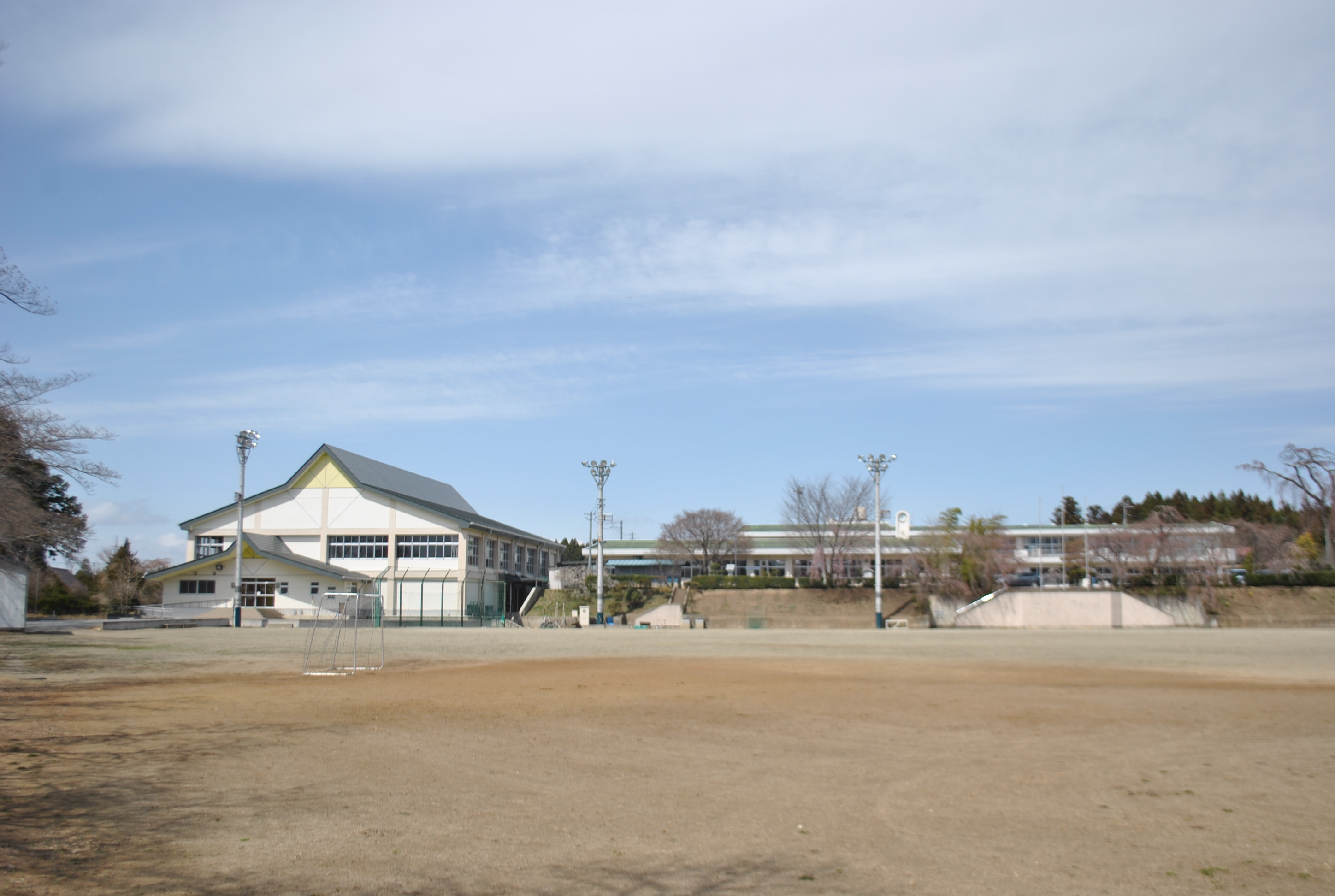 Mikami Elementary School in Yabuki Town, Fukushima Pref., Japan.